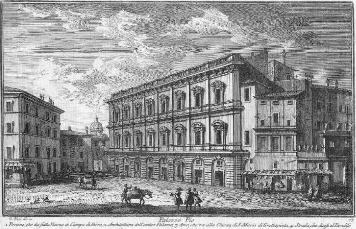 1) entrance to the palace in Campo dei Fiori; 2) old part of the building; 3) arch leading to S. Maria di Grottapinta; 4) Strada del Paradiso (after the name of a medieval inn).